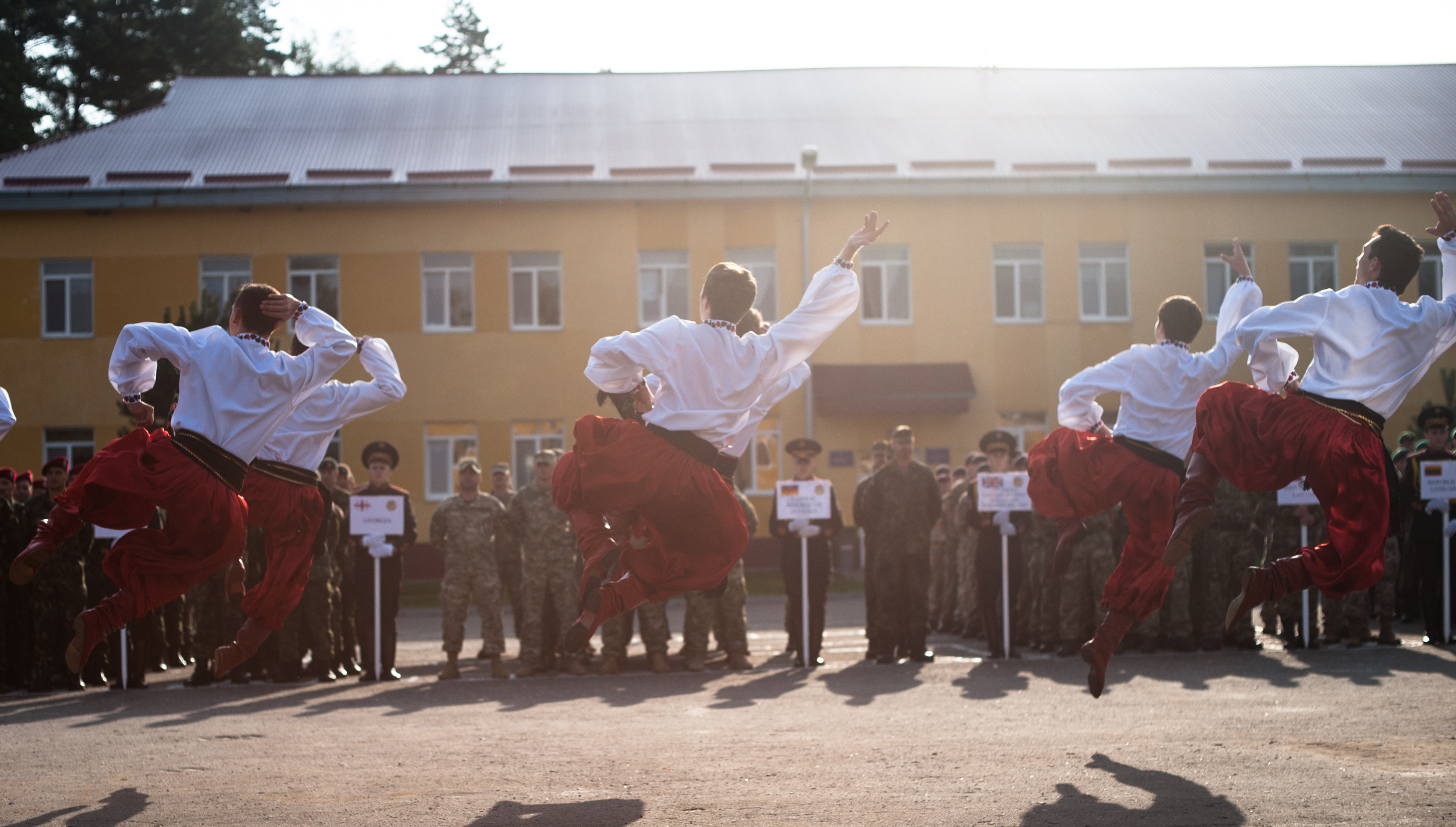 YAVORIV, Ukraine -- A Soldier from the Ukrainian military stands in formation during Exercise Rapid Trident’s opening ceremony here Sept. 15. Rapid Trident is an annual U.S. Army Europe conducted, Ukrainian led multinational exercise designed to enhance interoperability with allied and partner nations while promoting regional stability and security. (U.S. Army photo by Spc. Joshua Leonard)